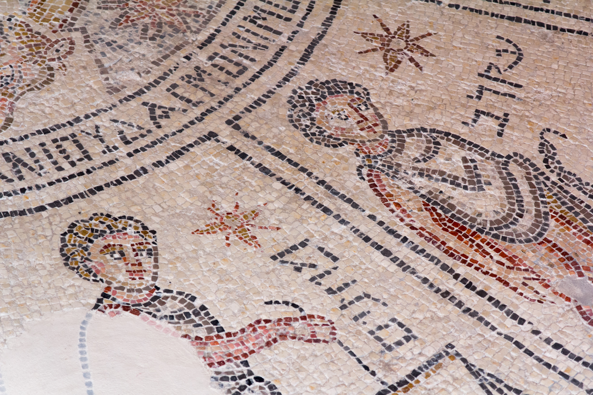 Mosaic at the Sepphoris Synagogue